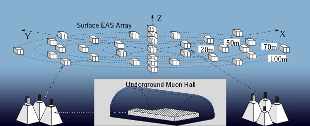 The surface extensive air shower detector stations of GAMMA Experiment are located on 5 concentric circles of radii 20, 28, 50, 70 and 100 m. Each station contains 3 square plastic scintillation detectors, 3x(1x1x0.05 m3), to measure the energy deposit of shower charged particles. A photomultiplier tube is positioned on the top of the aluminum casing covering each scintillator. One of the three detectors of each station is examined by two photomultipliers, one of which is designed for fast timing measurements. 150 underground muon scintillation detectors (muon carpet) are compactly arranged in the underground hall under 2.3 Kg/cm2 of concrete and rock to detect shower muon component with energies more that ~5 GeV.